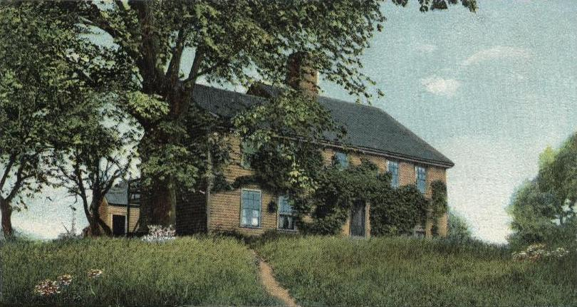 Old Balch House, Beverly, MA; from a c. 1906 postcard. Now owned by the Beverly Historical Society, the home was built c. 1679, with another section added c. 1700.